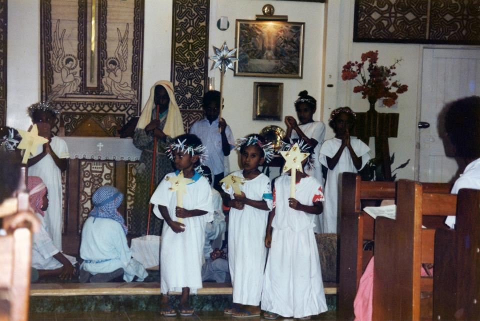 Christmas pageant in a Port Moresby Anglican church mid-90s Other information Now long-grown children in Christmas pageant in mid-1990s